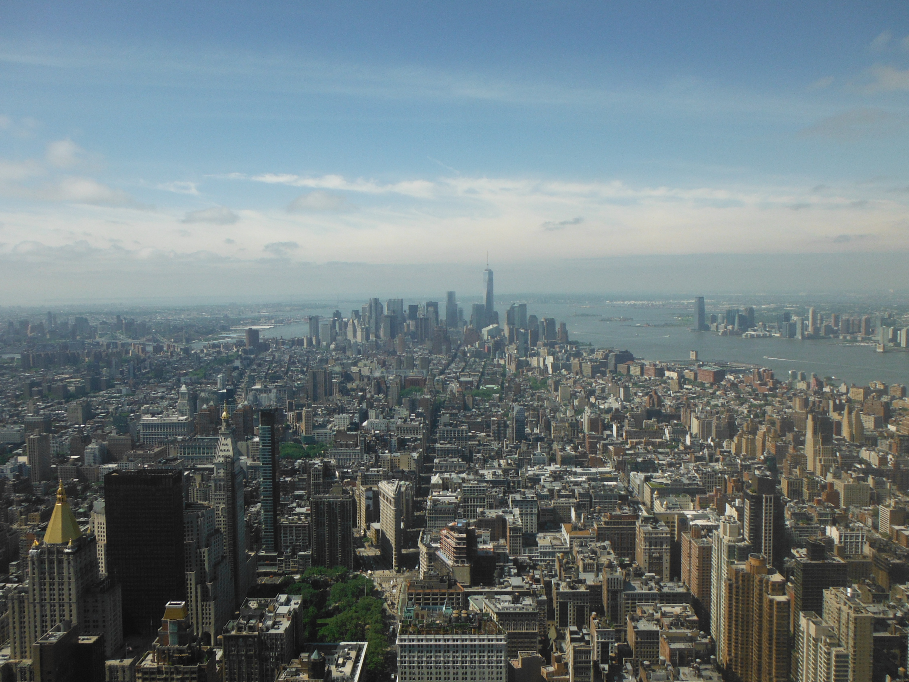 New york view from Empire State.